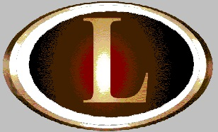 Logo for Logan High School